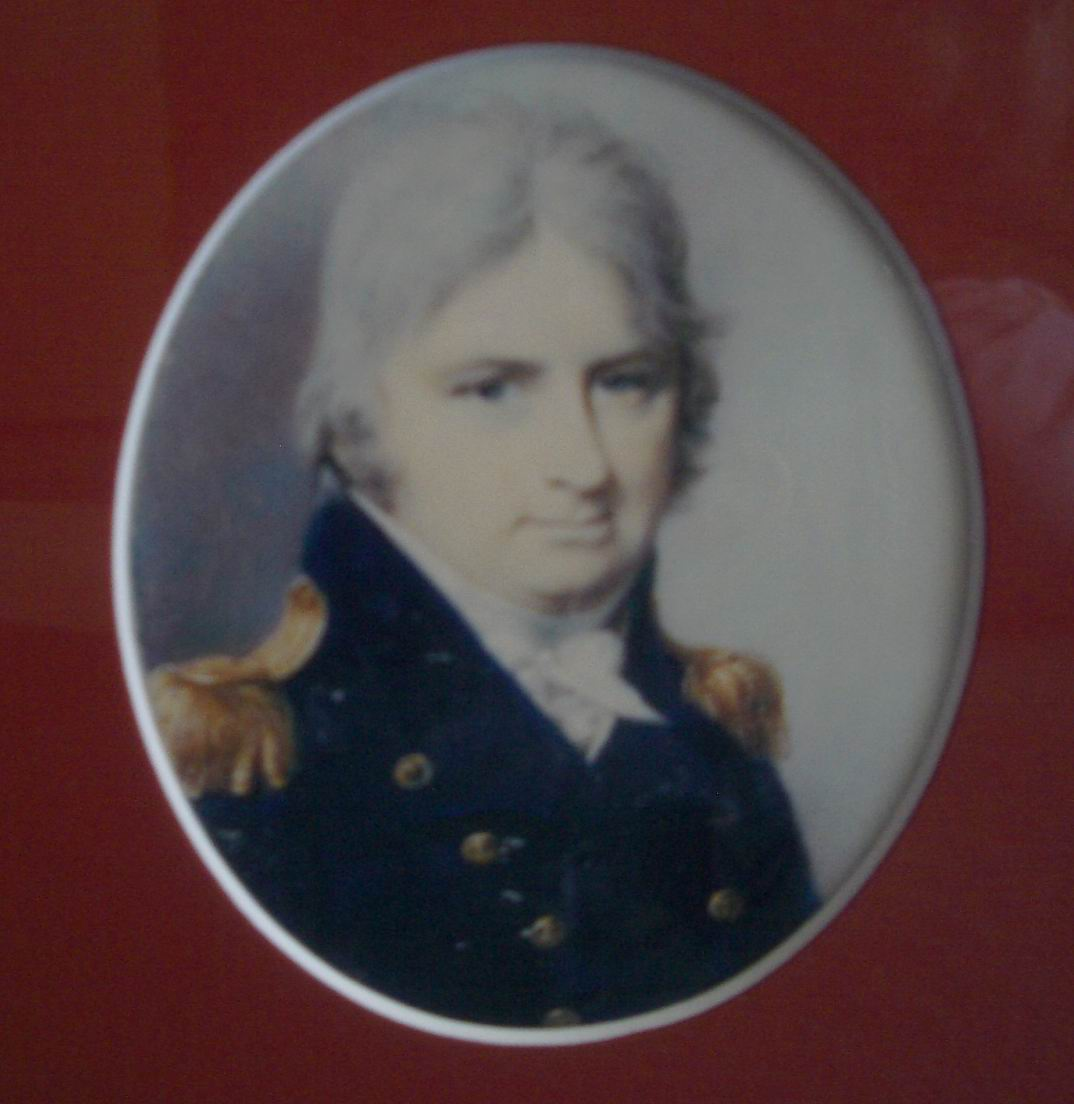 William Brown (8 May 1764 – 20 September 1814)[1] This is photo of a portrait I own. Alastair Brown